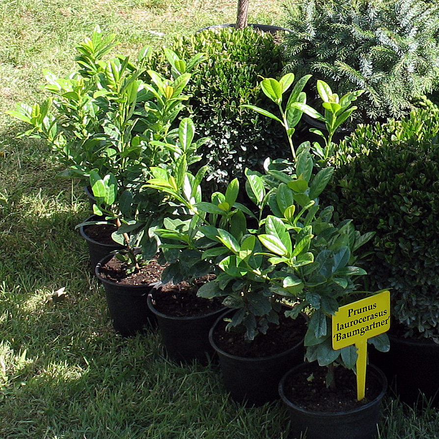 Prunus laurocerasus 'Baumgartner'